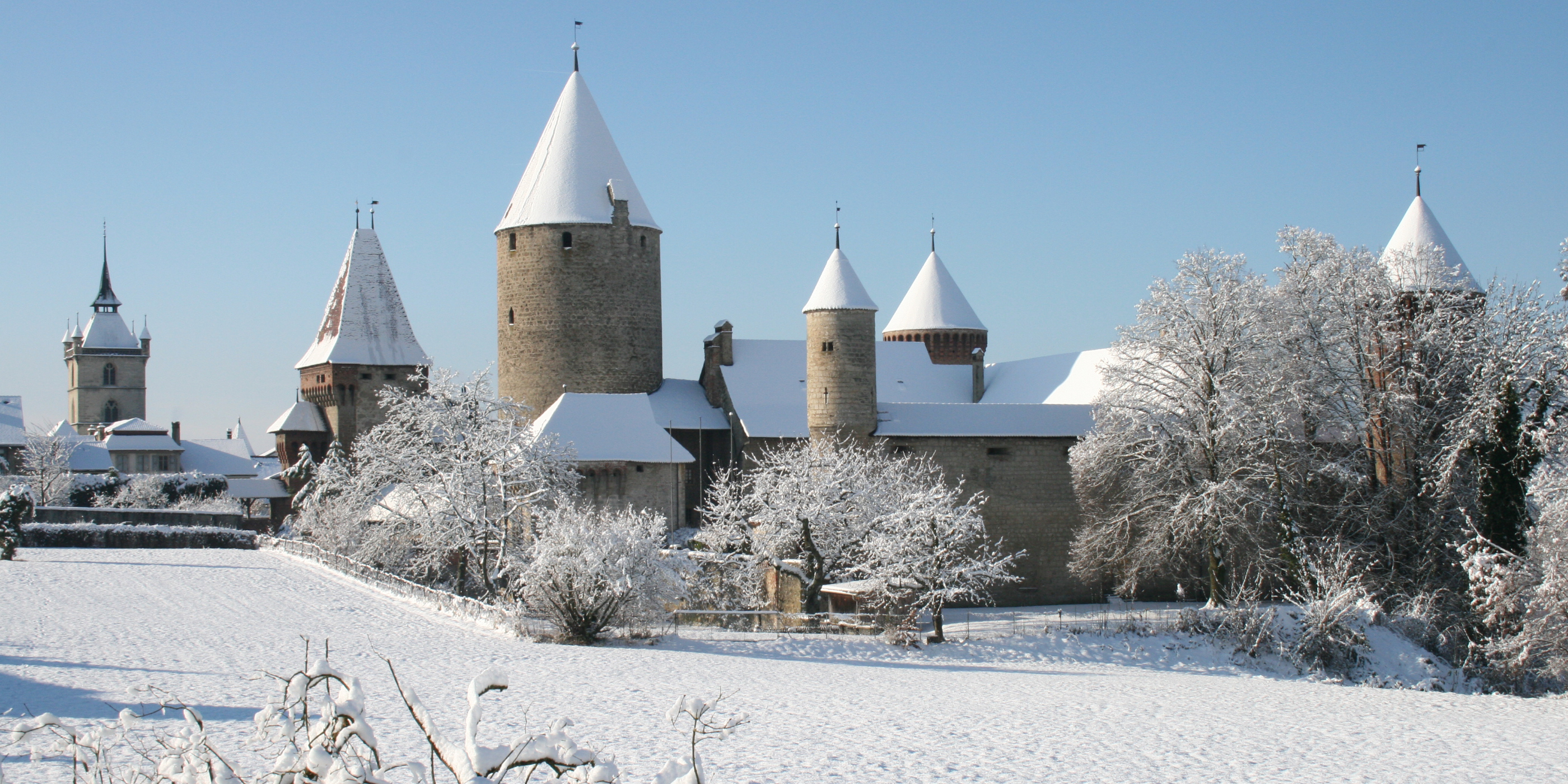 „Château de Chenaux“, photo taken from the viewpoint "Pré du Château"